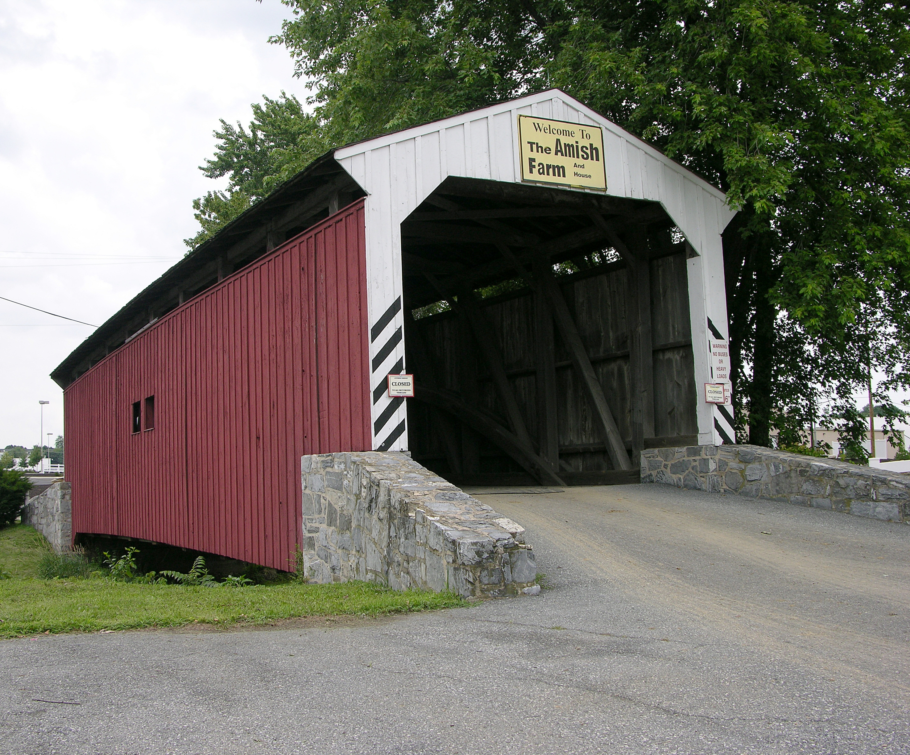 A three-quarters view photograph of the Willow Hill Covered Bridge located in Lancaster County, Pennsylvania.